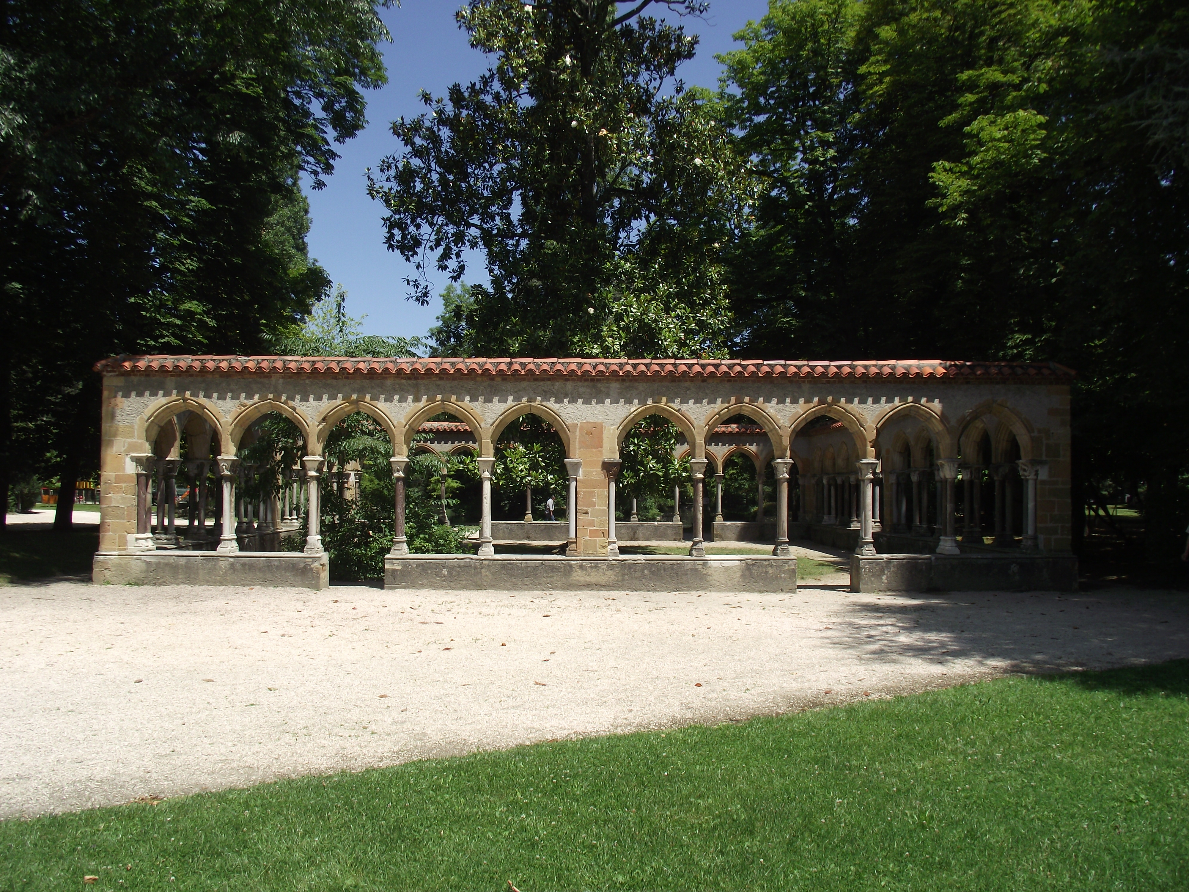 Cloister of Saint-Sever-de-Rustan abbey